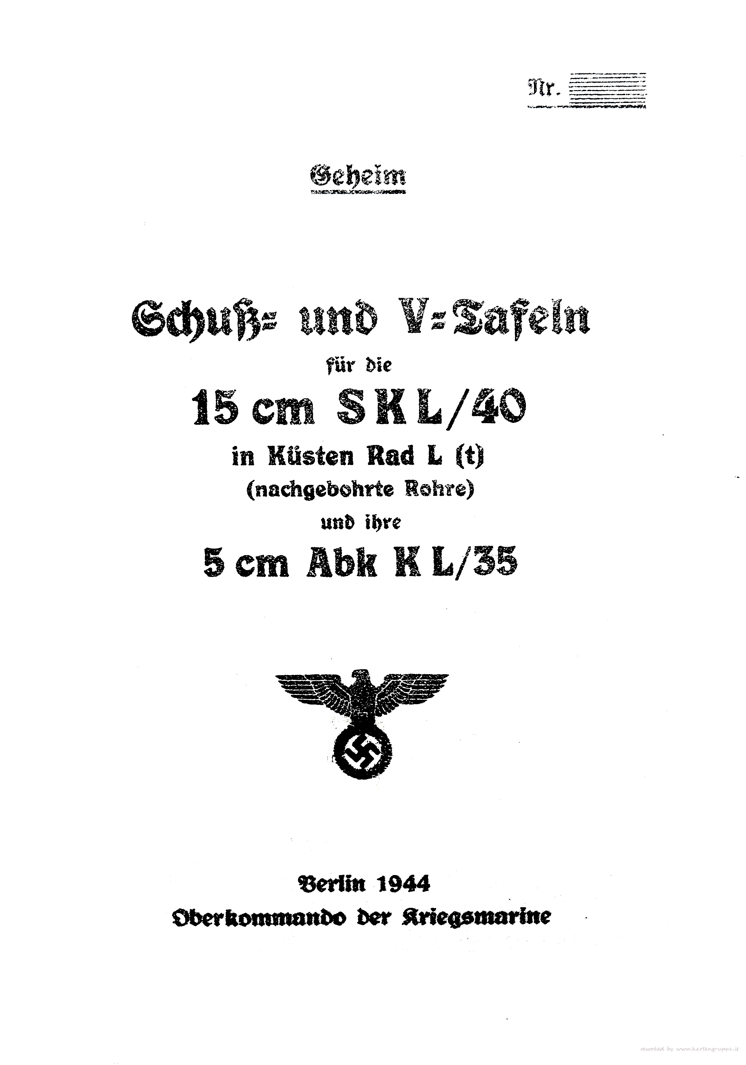 Secret. Firing tables for the rapid fire cannon SK L/40, calibre 15 cm (coastal defense) and fot the Abk K L/35, calibre 5 cm. Oberkommando der Kriegsmarine, Berlin 1944 (reworked by